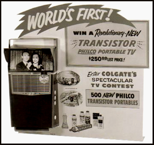 This is an actual photo of my rare store display easel showing a 1959 Philco Safari Transistorized portable tv.